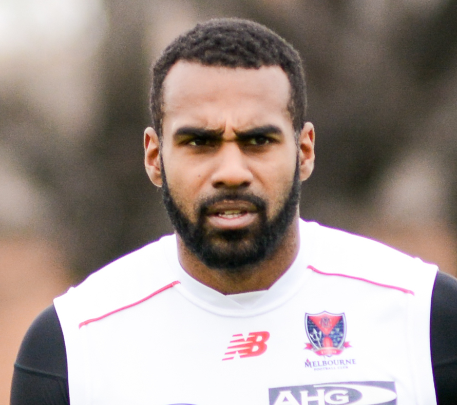 Heritier Lumumba at training during July 2015